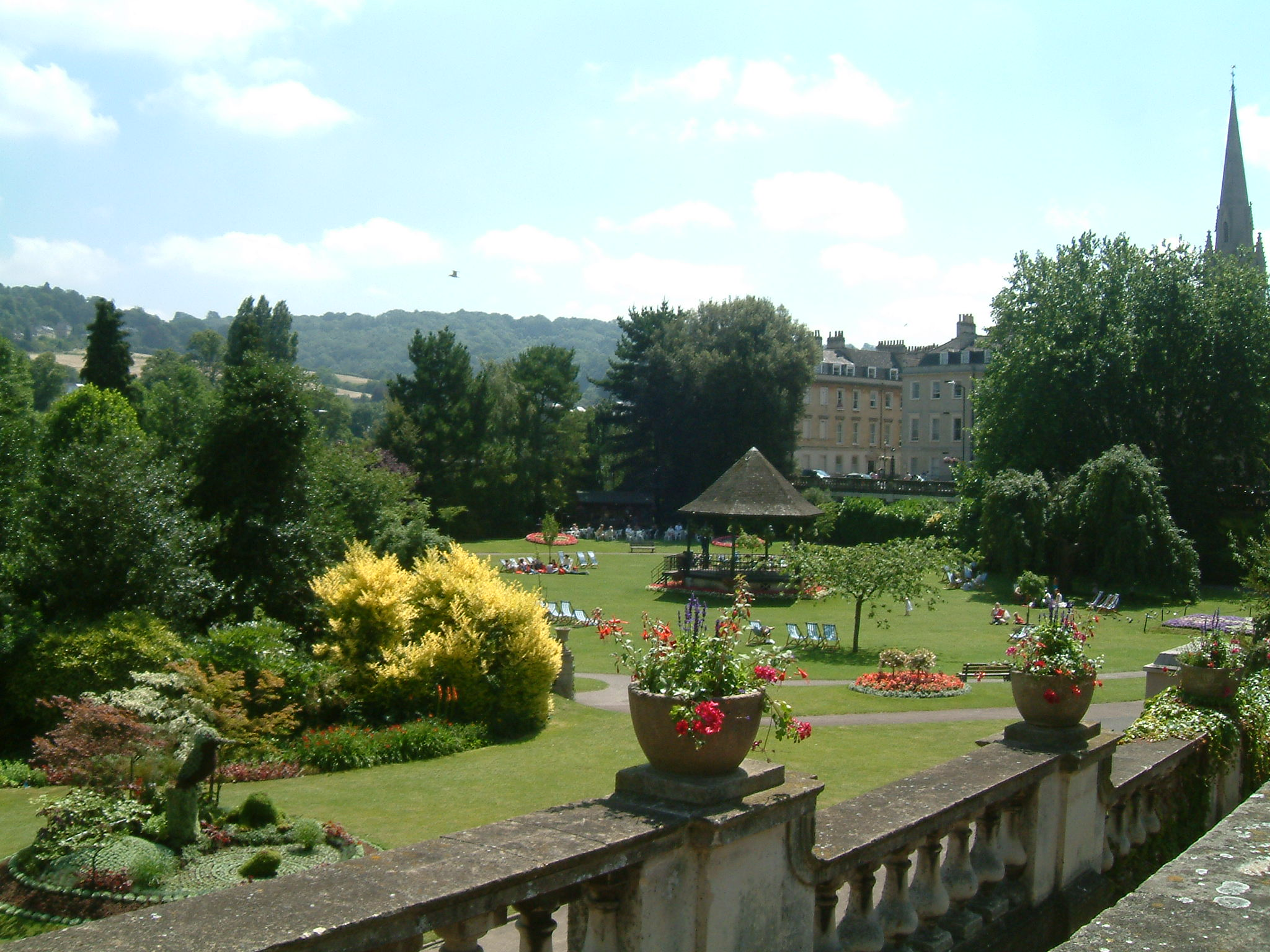 Bath, England, United-Kingdom